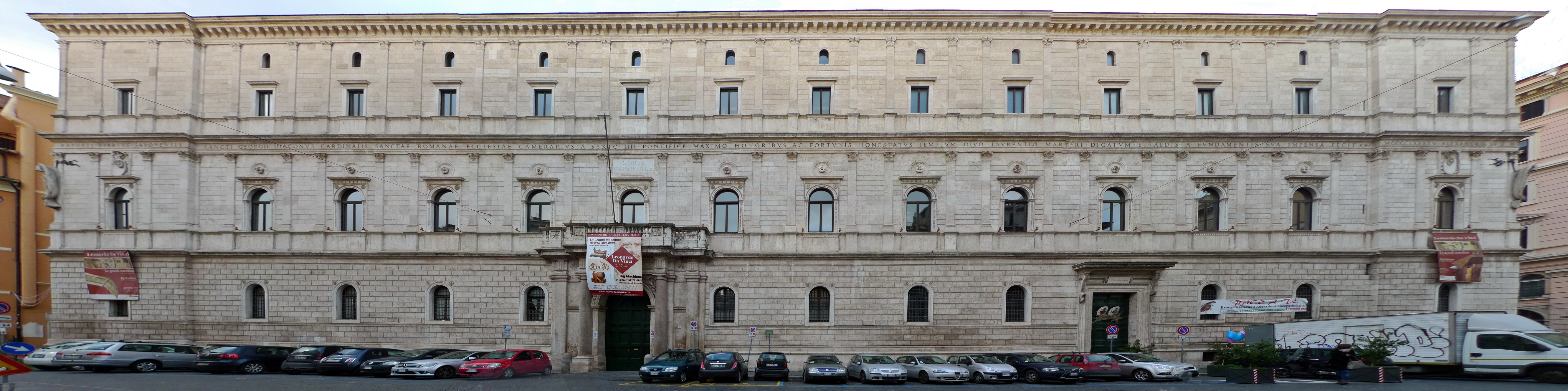 Front of Palazzo della Cancelleria, Rome, Italy